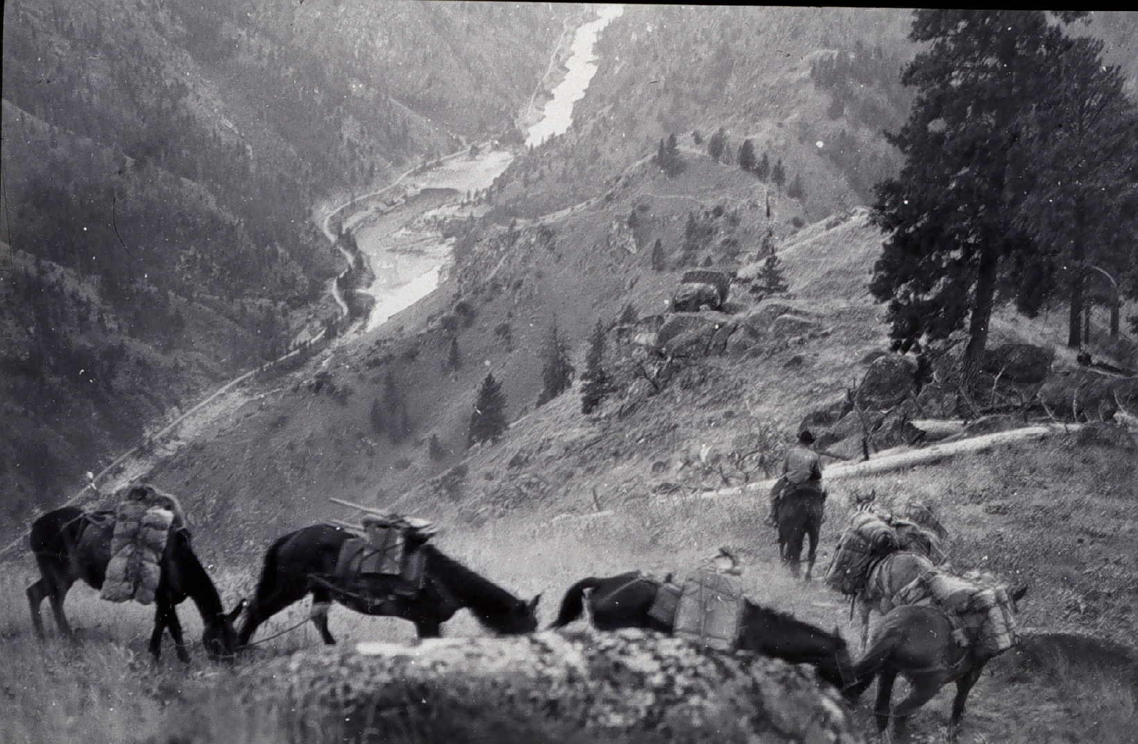 Salmon River Canyon trip 1945 Coast & Geodetic Survey Historic Image Collection Start of the trail at the end of the road. Heading into the Salmon River Canyon. Reconnaissance party of Oscar Risvold Image ID: theb1883, Historic C&GS Collection Location: Above Riggins, Idaho Photo Date: 1945 Credit: C&GS Season's Report Risvold 1945